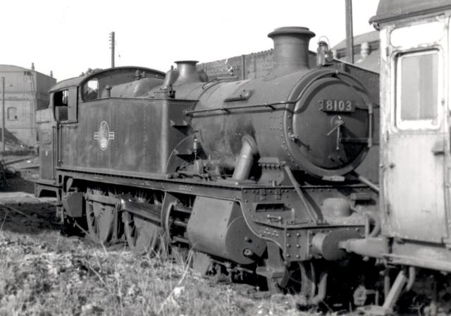 GWR 8100 Class 2-6-2T 8103 at Carmarthen shed